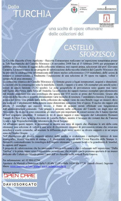 Exhibition poster